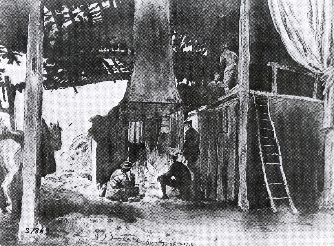 "Cold Nights Coming On," a drawing by Capt. Walter J. Duncan, E.R.C., S.C. Note: At the end of the summer Captain Duncan found a group of soldiers in the remains of a farmhouse. They had found some firewood and kindled a fire close to the remnants of a chimney. Duncan captured the scene in his “Cold Nights Coming On”. NARA holdings: Local Identifier: 111 SC 37863